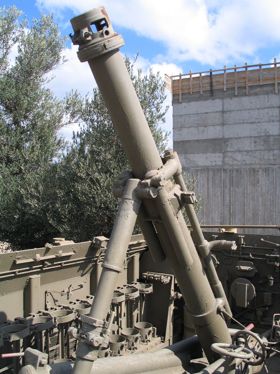 Description: Israeli Makmat 160 mm ("Makmat" stands for heavy self-propelled mortar) in Beyt ha-Totchan, Zichron Yaakov, Israel. 2005. Source: Photo by me, User:Bukvoed.